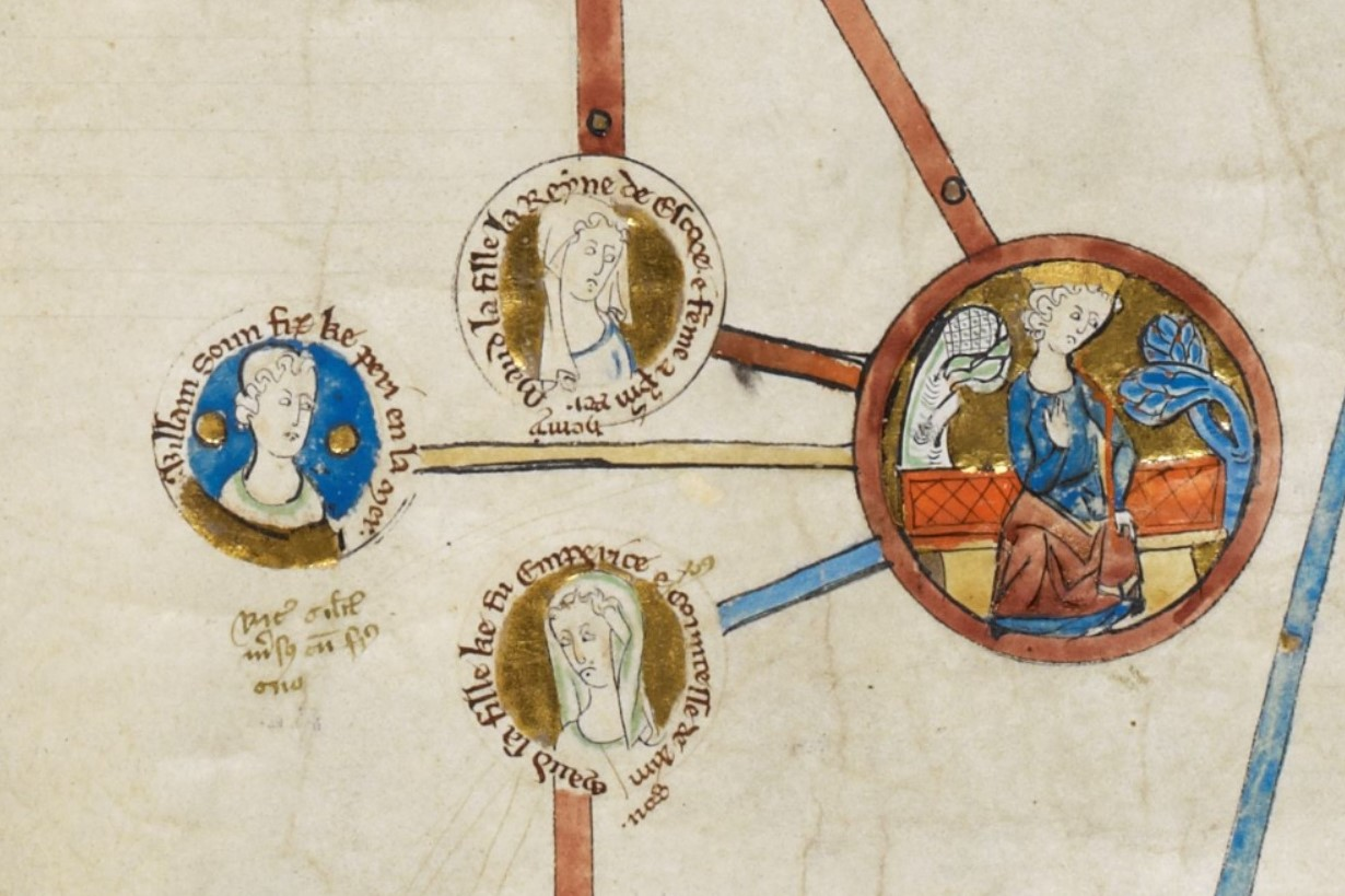 Depiction of King Henri I of England, his spouse and children in the 13th-century Genealogical Chronicle of the English Kings.